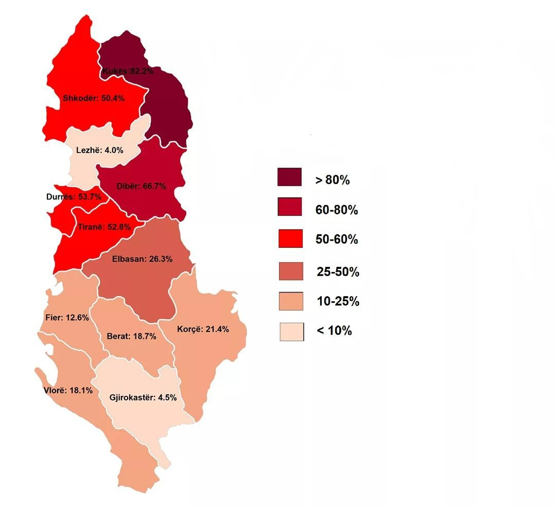 Circumcision rate by region in Albania for males aged 15-49. Source: Albania: DHS, 2017-18 - Final Report